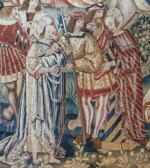 Detail of a tapestry probably from Tournai, beginning of the 16th century, depicting a gypsy fortune teller, collection of Gaasbeek Castle, Belgium.